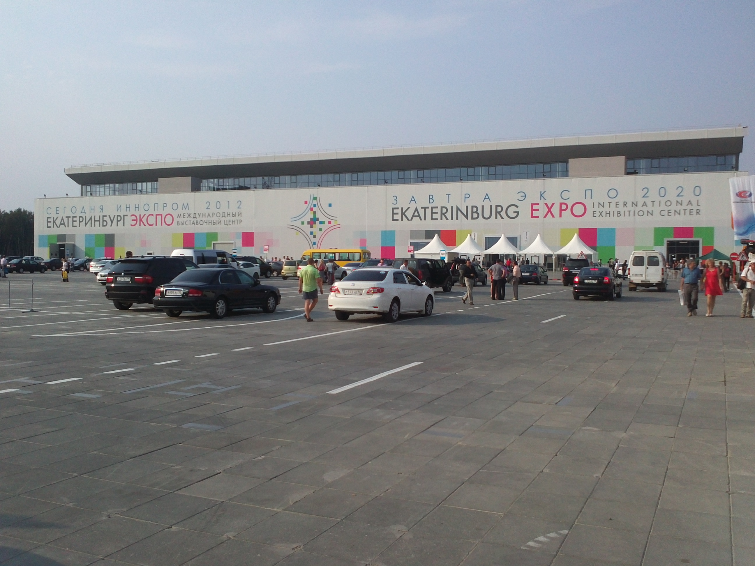 Ekaterinburg-Expo during Innoprom-2012